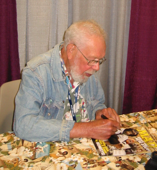 Legendary artist Al Jaffee shown here personalizing a MAD Magazine in which his work has appeared for over three decades.